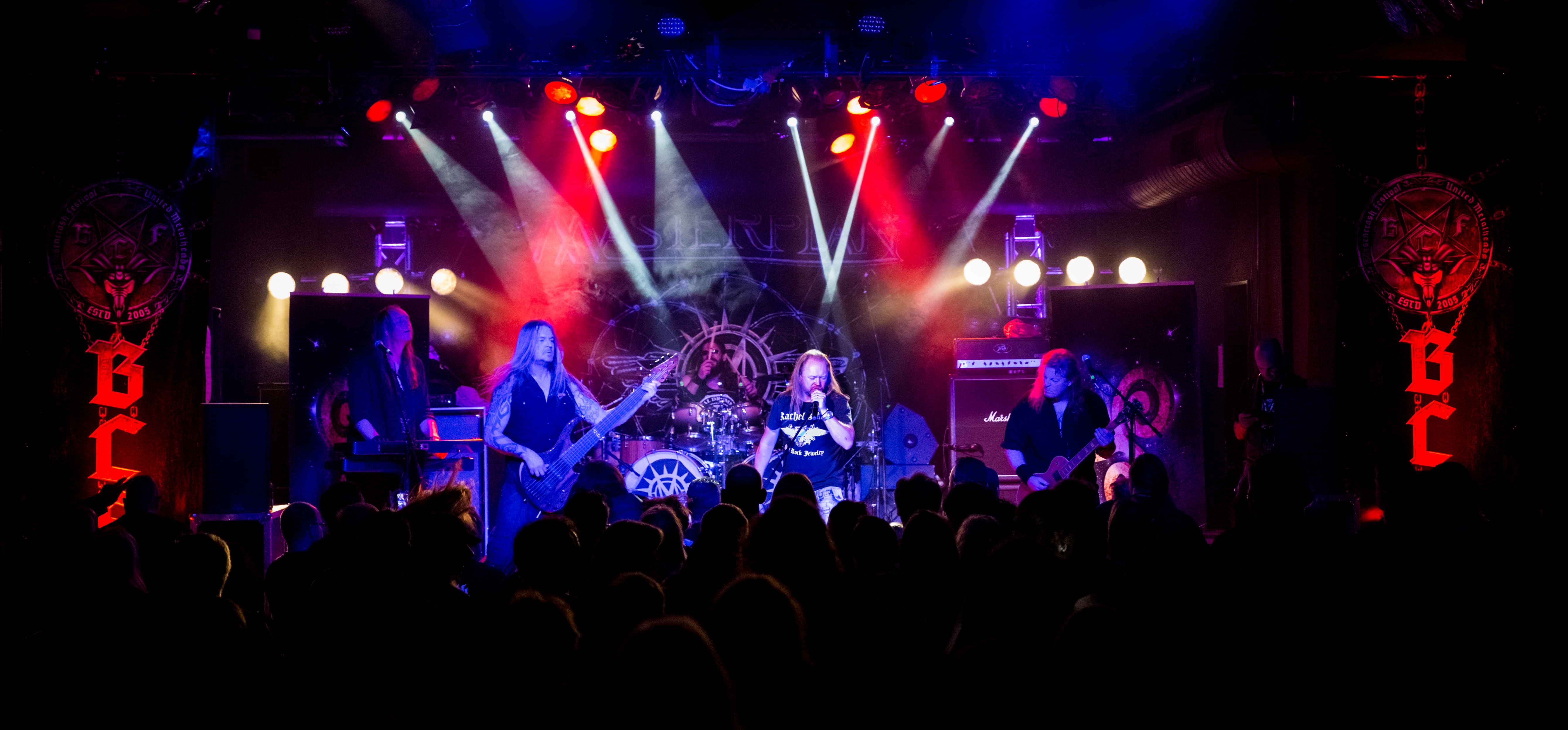 Masterplan (band) - Börsencrash Festival Wuppertal 2016